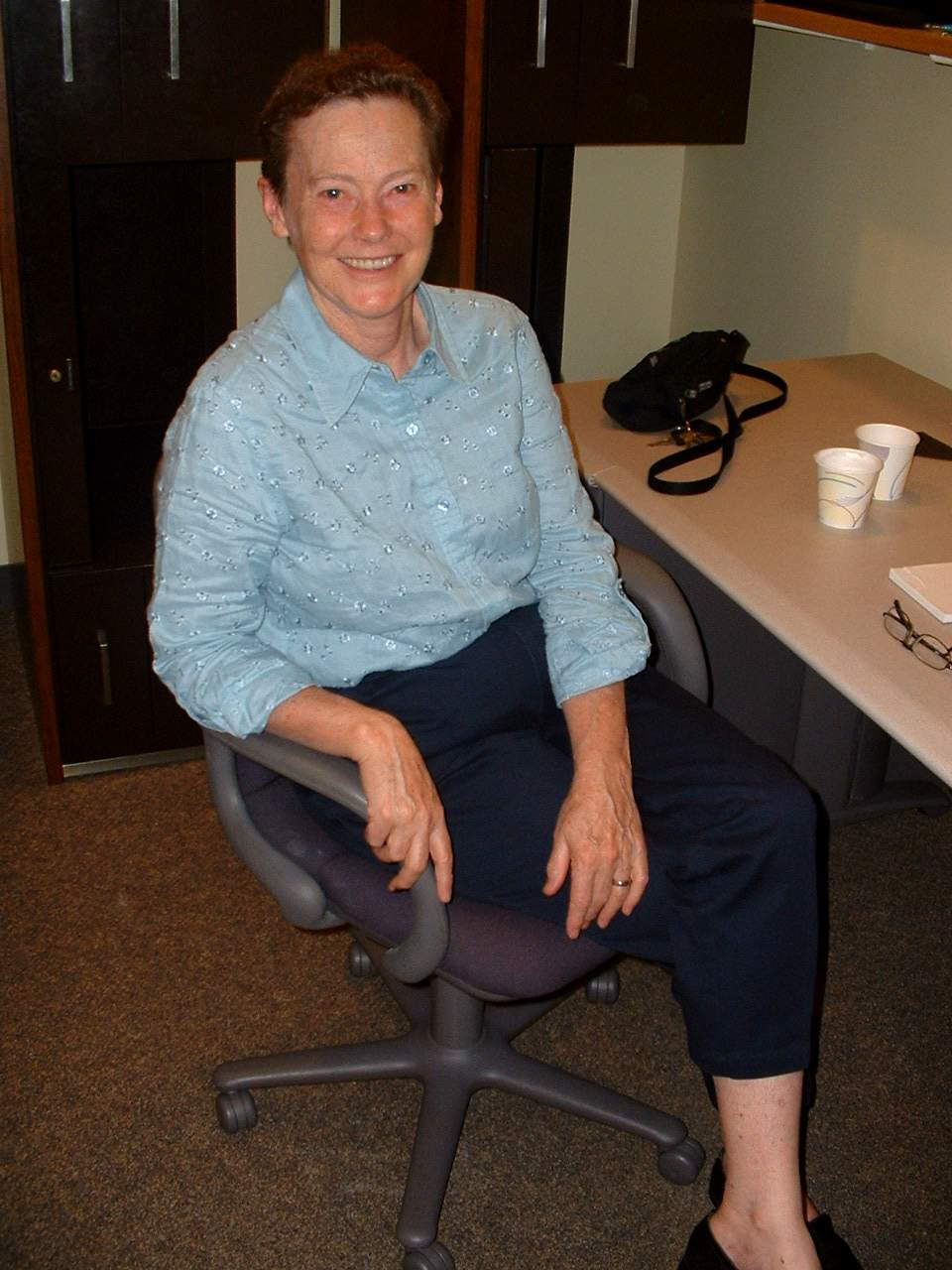 Helen Quinn at Harvard University